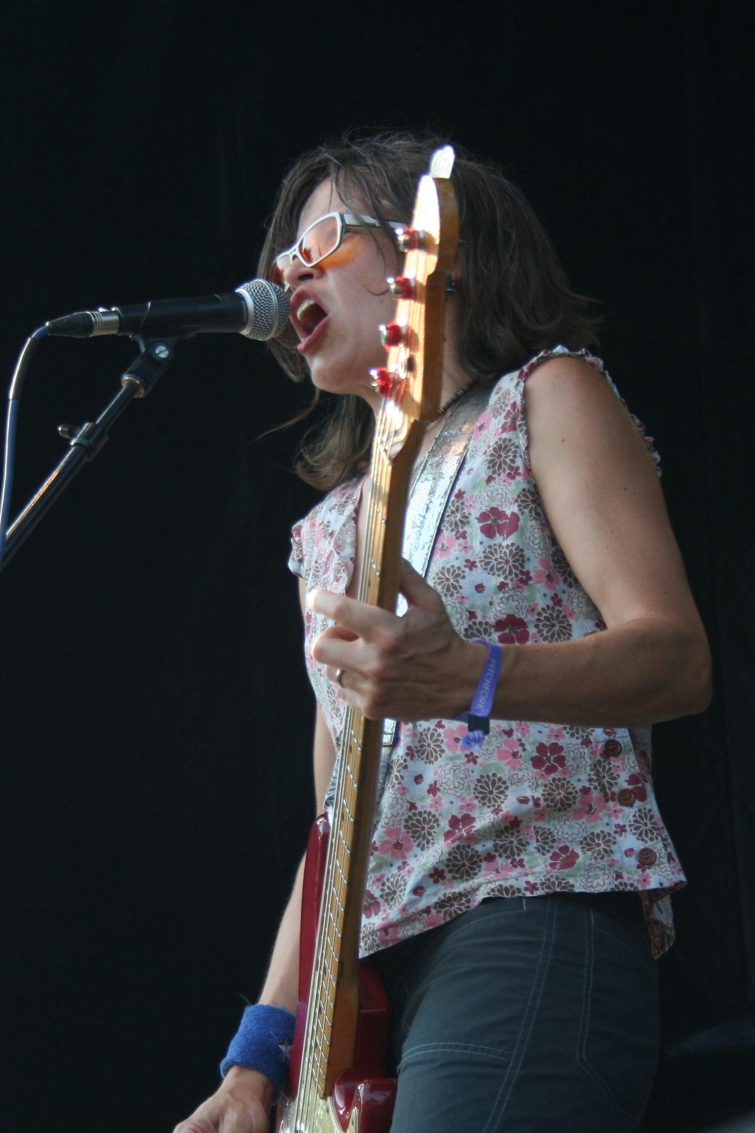 Musician Laura Ballance of Merge Records and Superchunk performing at Pitchforkfest in 2011.